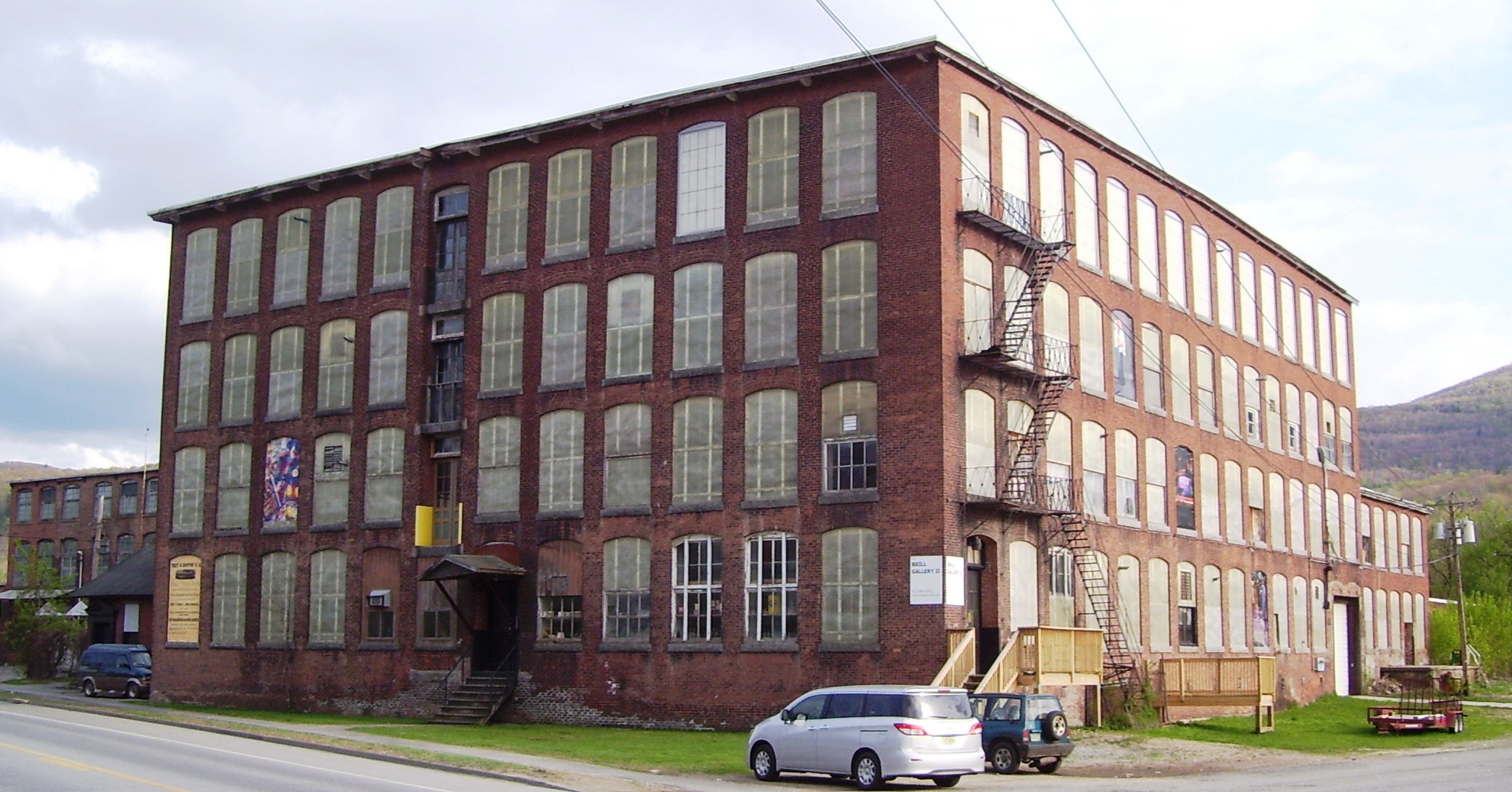 The first building of Greylock Mill, the first cotton mill in North Adams – located on 506-510 State Road (Route 2) at Protection Avenue – was built in the 1870s, replacing a smaller mill which had been there since 1846. The intial building grew into a complex of buildings. After the mill closed, it was purchased in 1976 by James V. Cariddi for his Cariddi Sales Company. In 2001 Ralph Brill opened Brill Gallery II using the boarded-up outside windows of the mill to display artwork. (Sources: [1], [2], [3], [4])